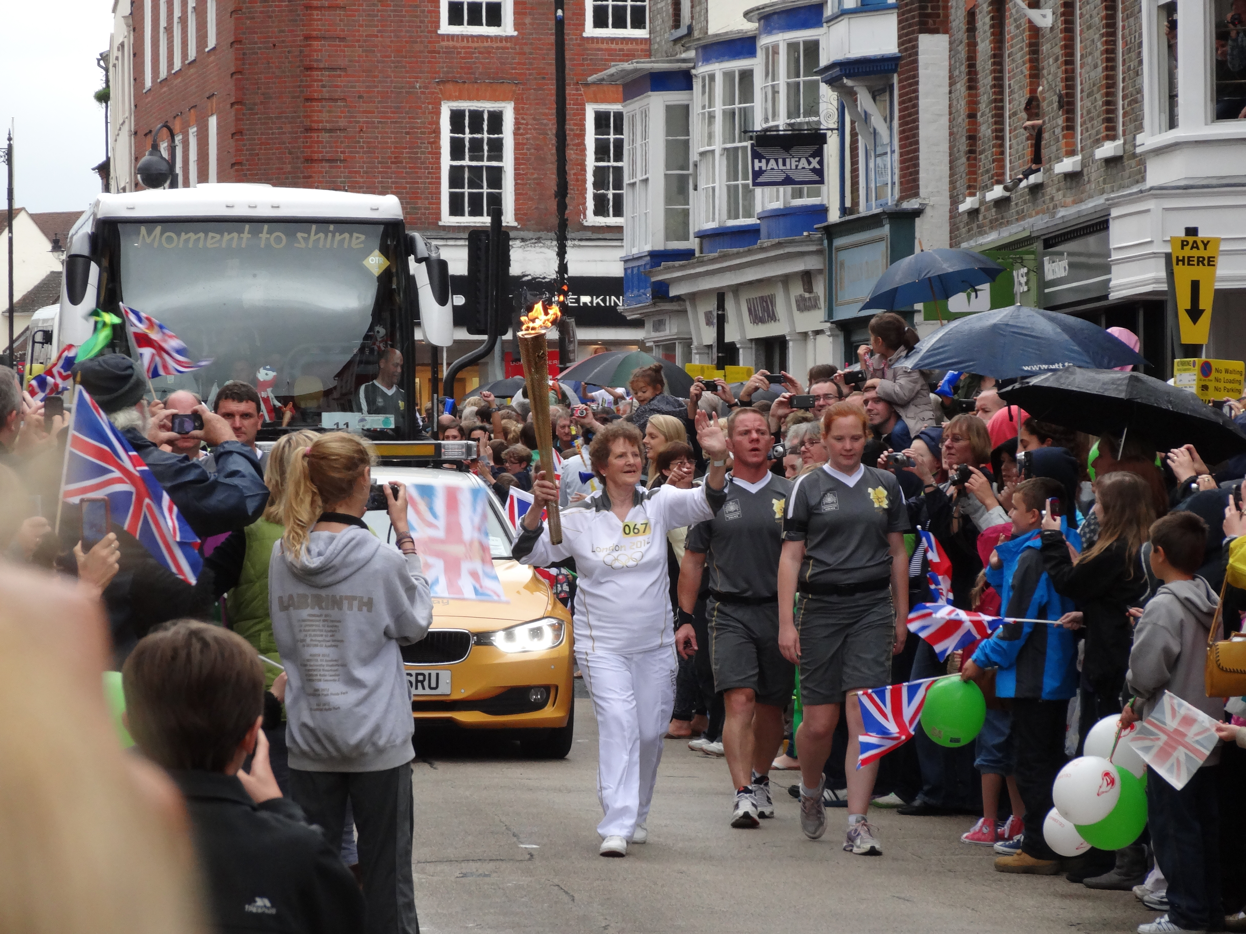 Olympic torch relay through Newport